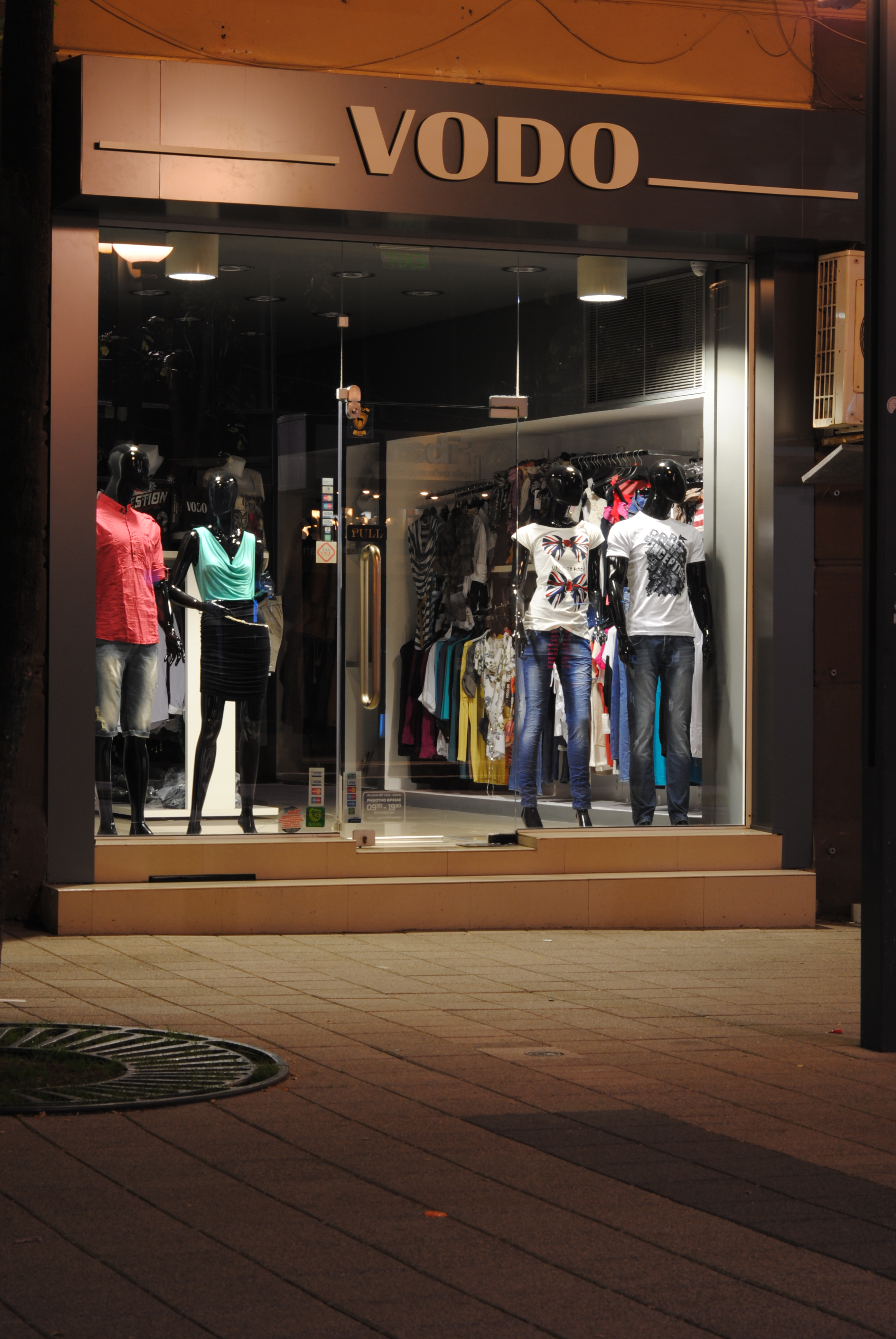 VODO shop